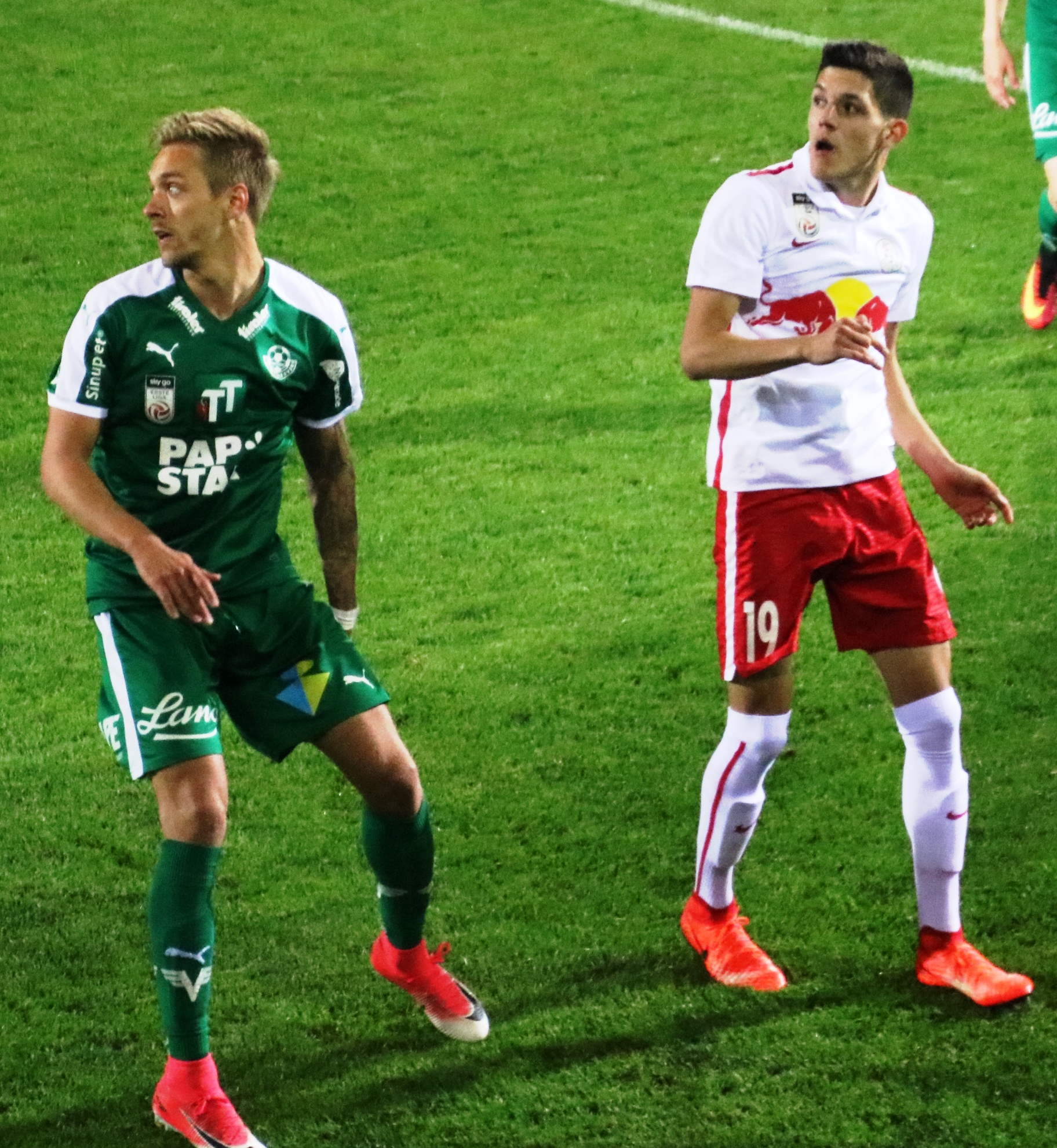 league match Austria 2nd league